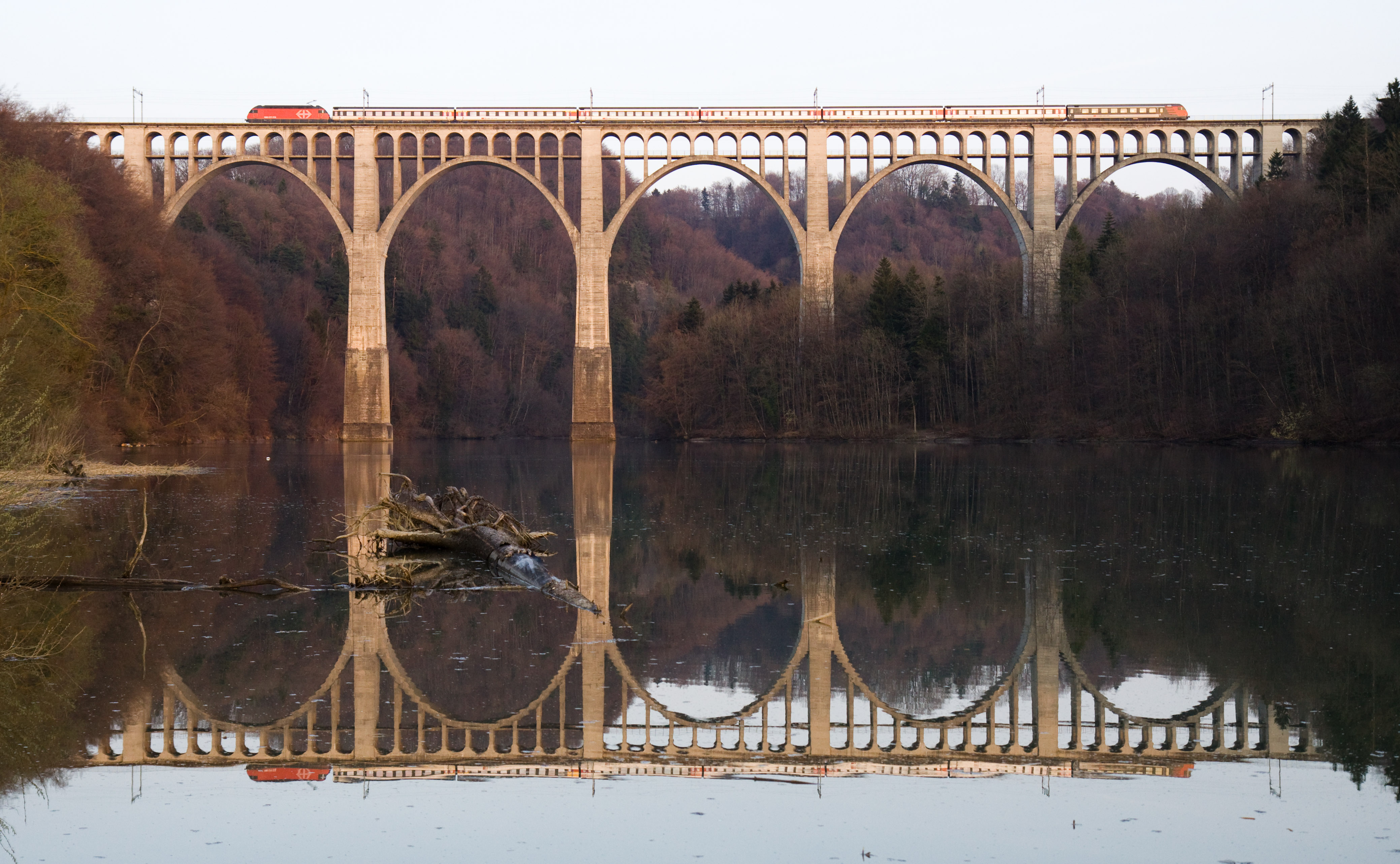 SBB-CFF-FFS EW IV push-pull train on the Grandfey viaduct